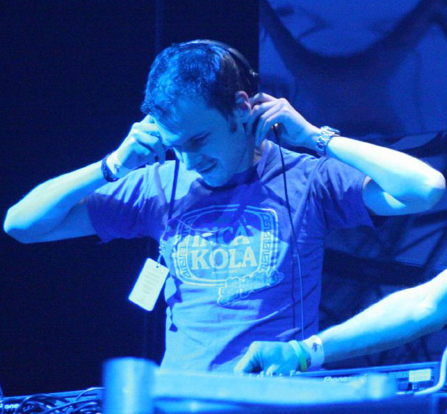 Above and Beyond in Melbourne, Australia on 8 October 2006.